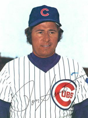 Professional baseball player Ron Santo